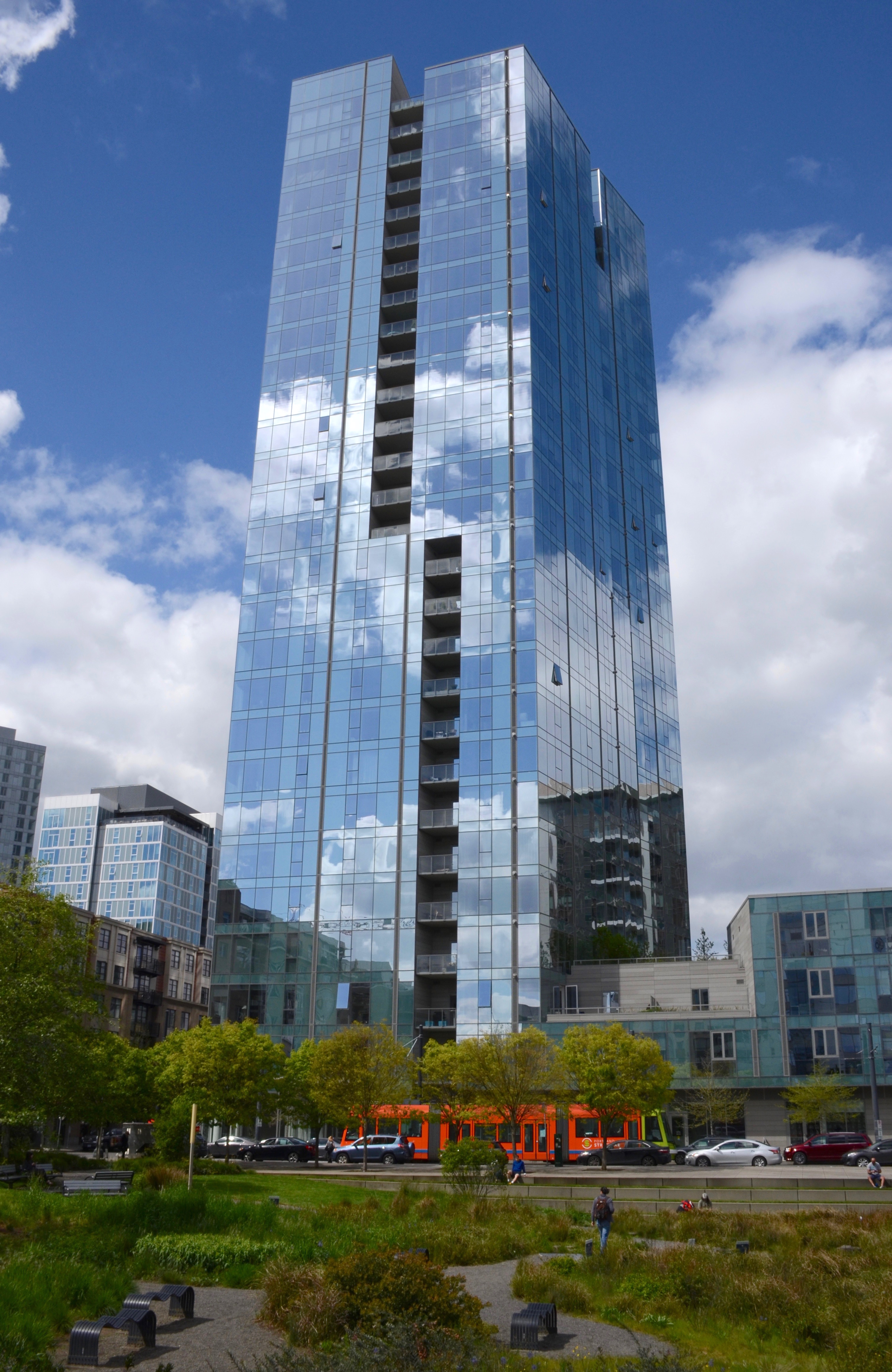 The 28-story Cosmopolitan on the Park condominium tower, viewed from across Tanner Springs Park. A streetcar is passing by on NW Northrup Street.